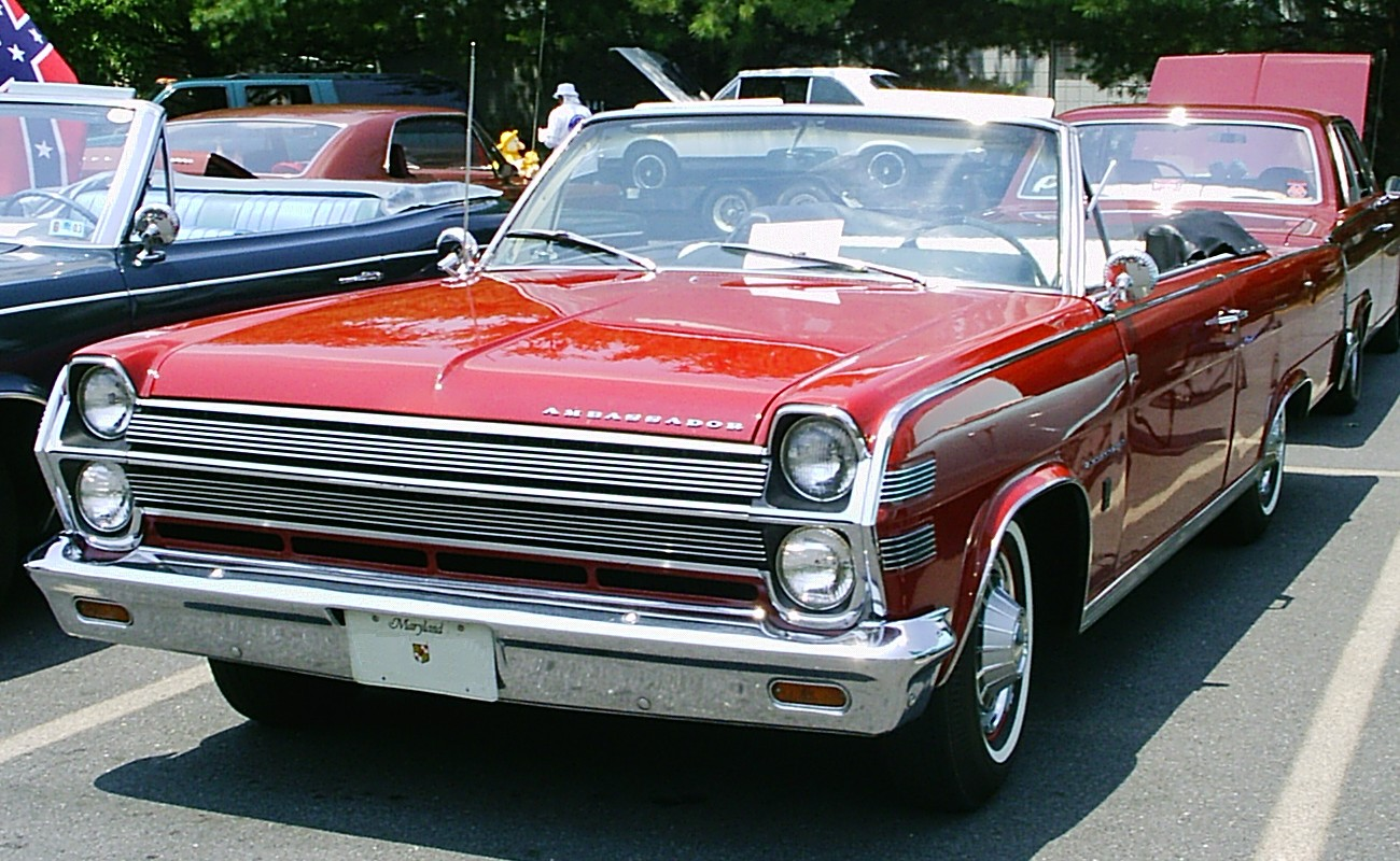 1966 AMC Ambassador 990 convertible finished in red. A full-sized automobile built by American Motors Corporation (AMC) Picture taken at an AMCRC car show that was held in Gaithersburg, Maryland, USA.